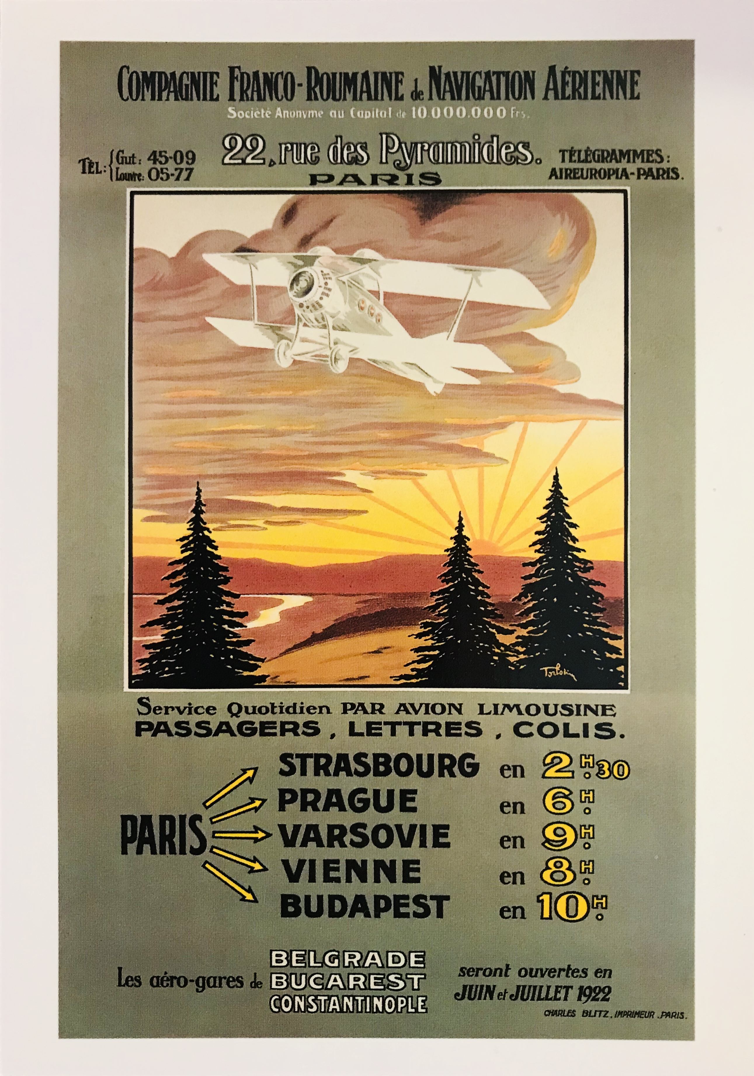 Affiche Compagnie Franco Roumaine de navigation aérienne